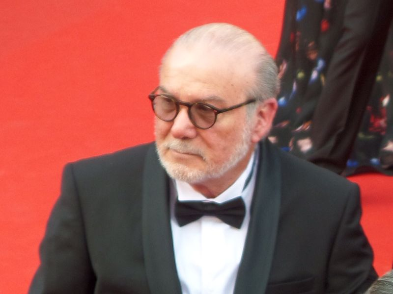 Yoram Globus at Cannes film festival 2014